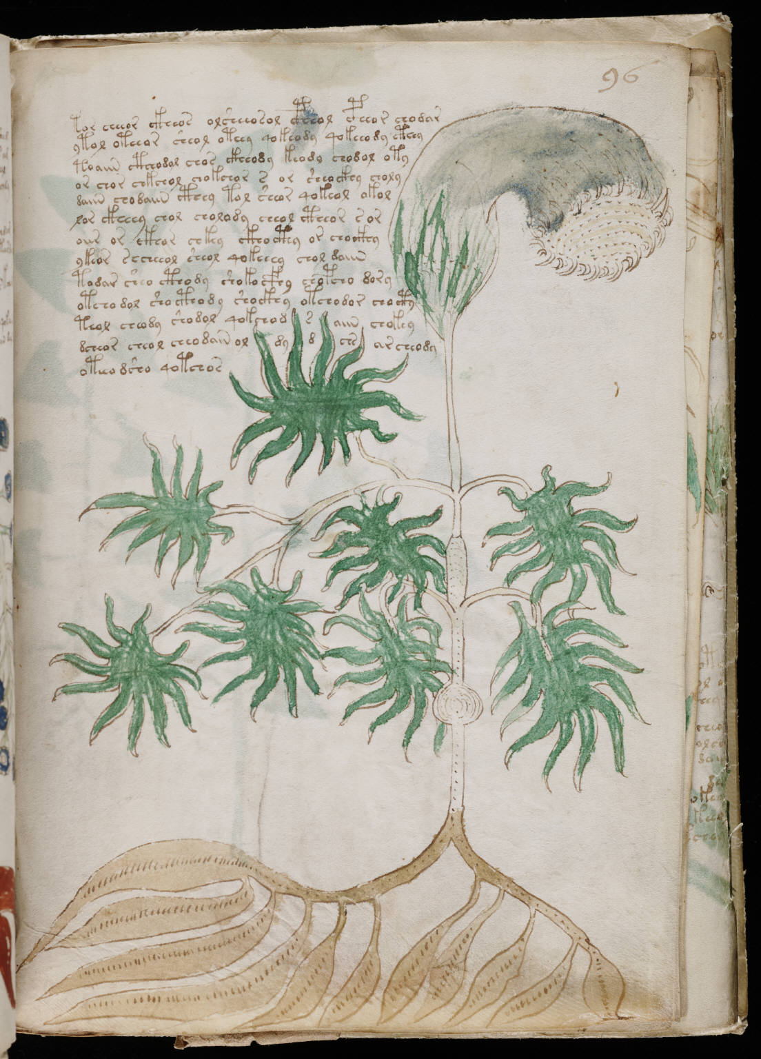 A page from the mysterious Voynich manuscript, which is undeciphered to this day.